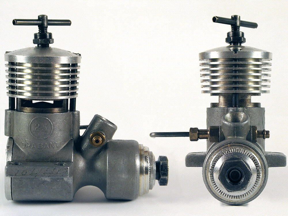 2.5ccm DA Drabant (David Andersen, made in Norway) diesel engine for model airplane